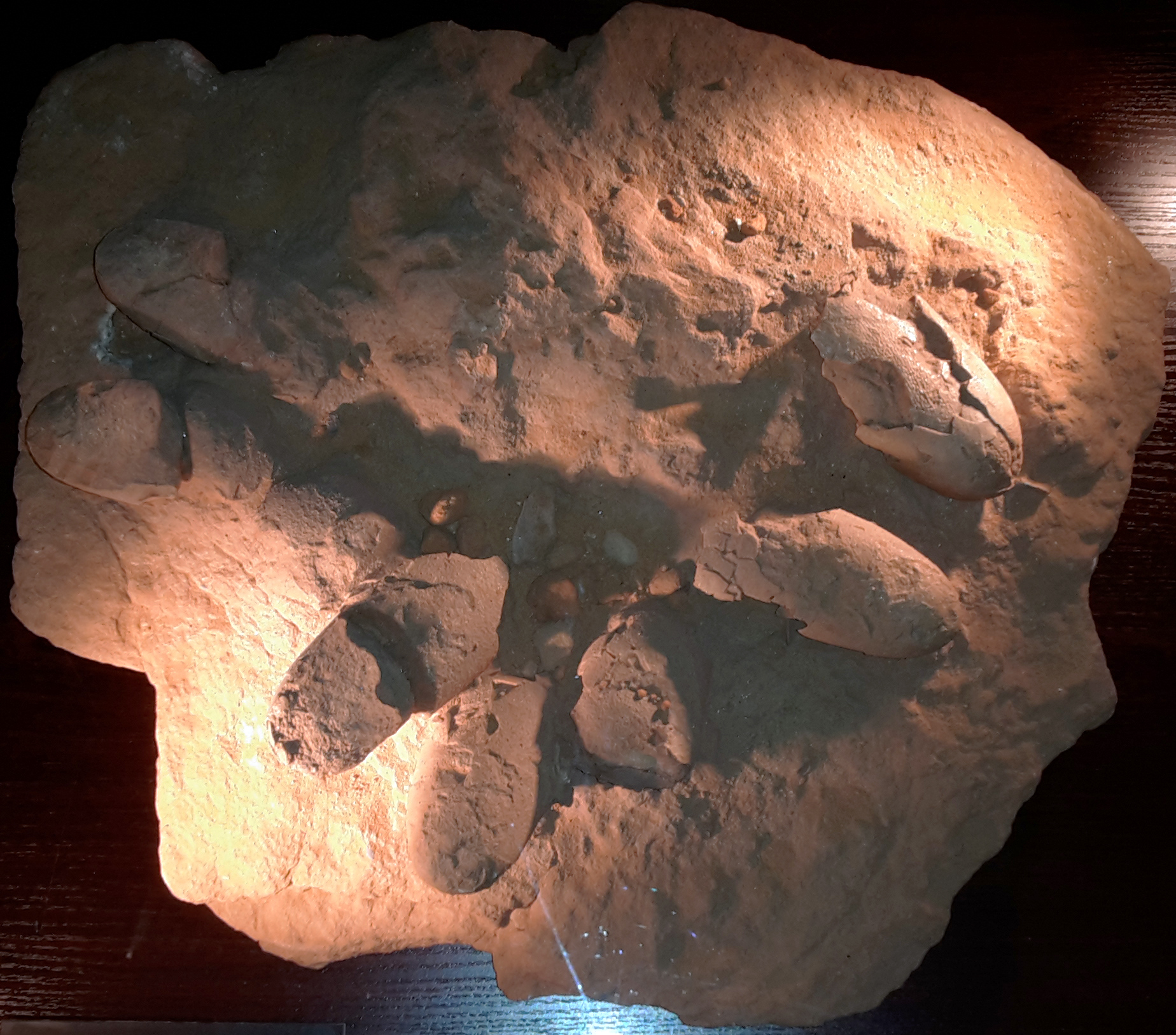 Protoceratops nest with eggs, Museum of Evolution of Polish Academy of Sciences, Warsaw.